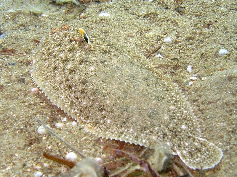 Pegusa cf. nasuta photographed in Trieste, Italy.